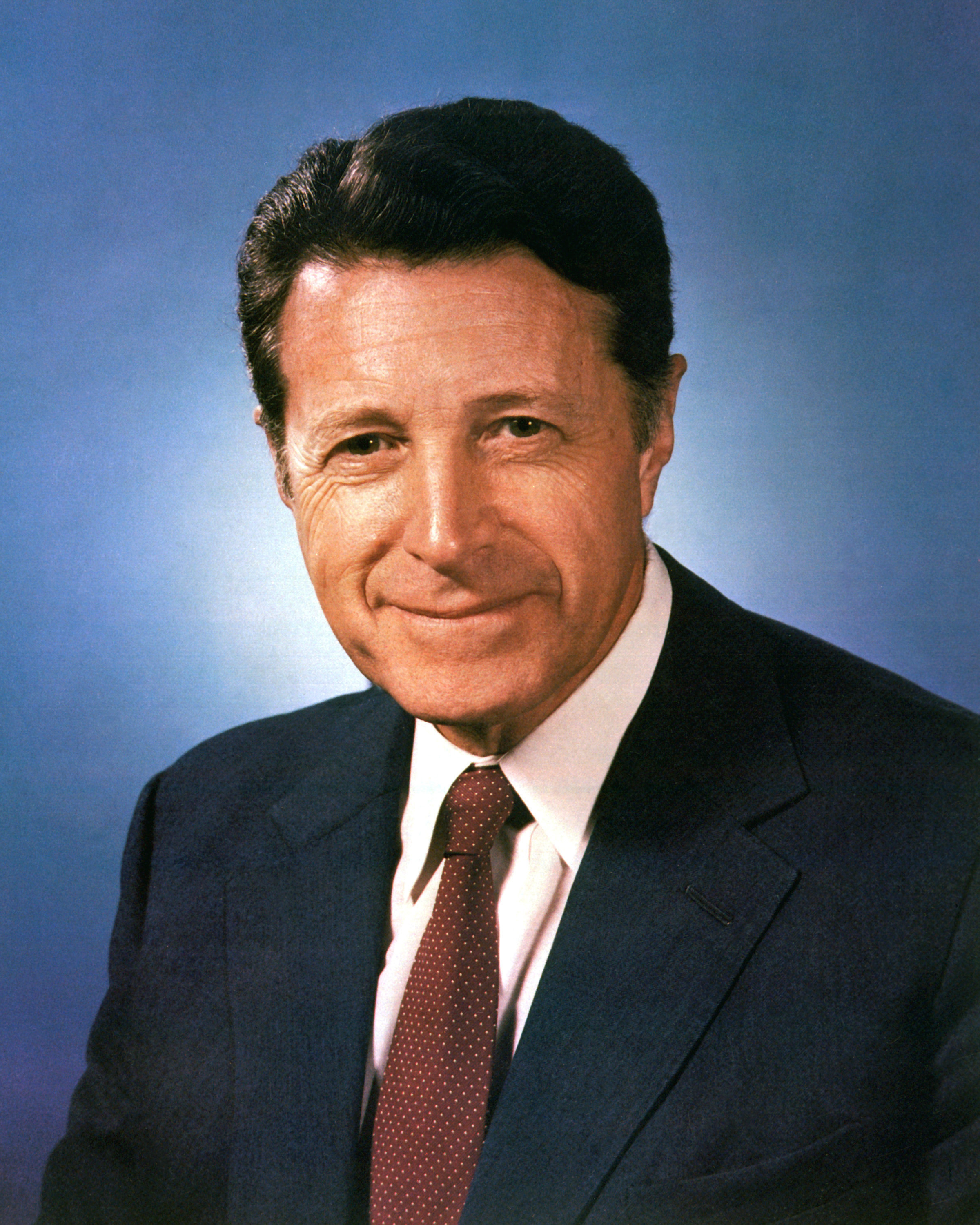 Official Department of Defense photo of Caspar Weinberger.